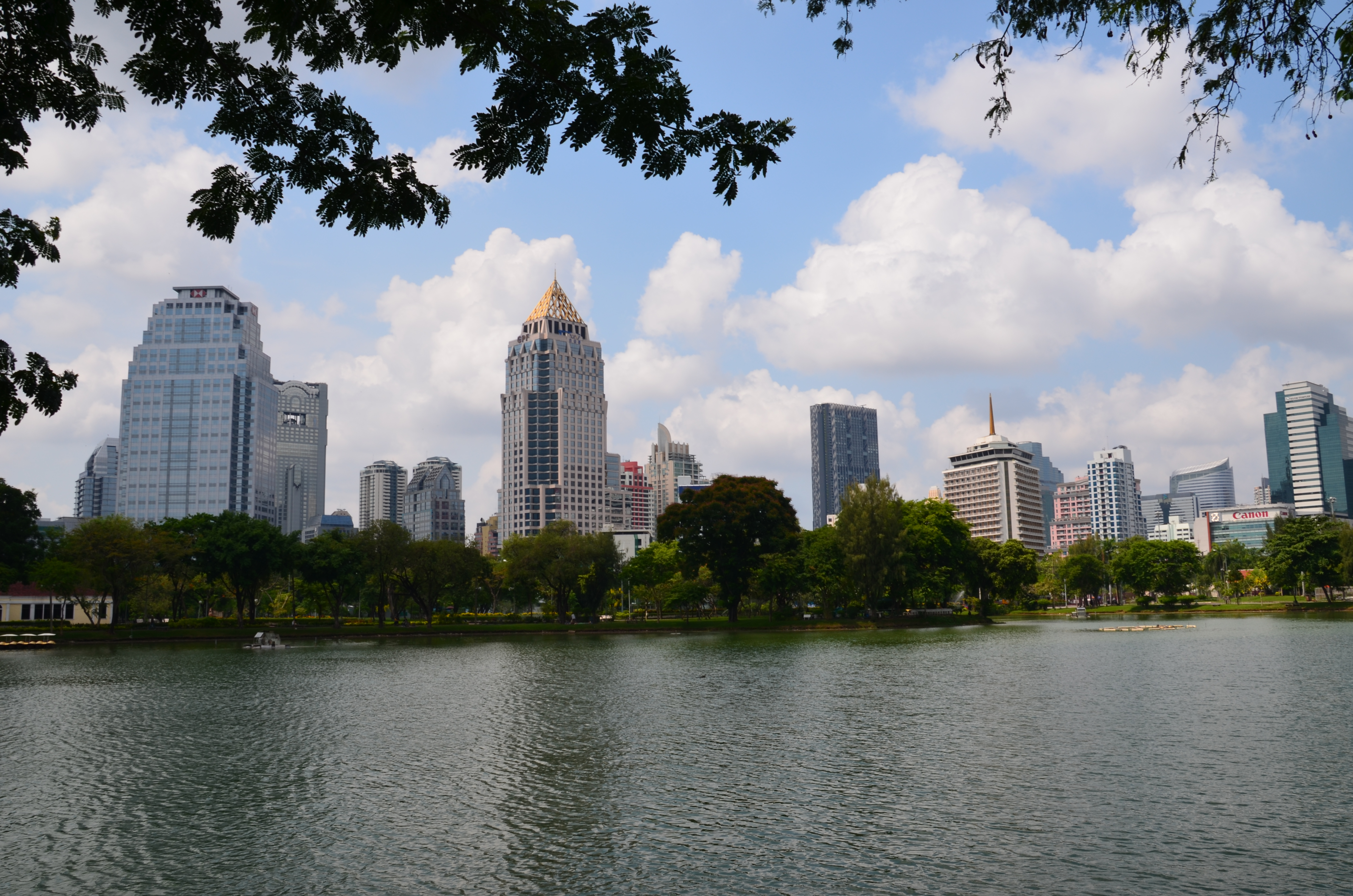 Lumpini Park, Bangkok, Thailand view of the Silom-Sathorn CBD April 2012